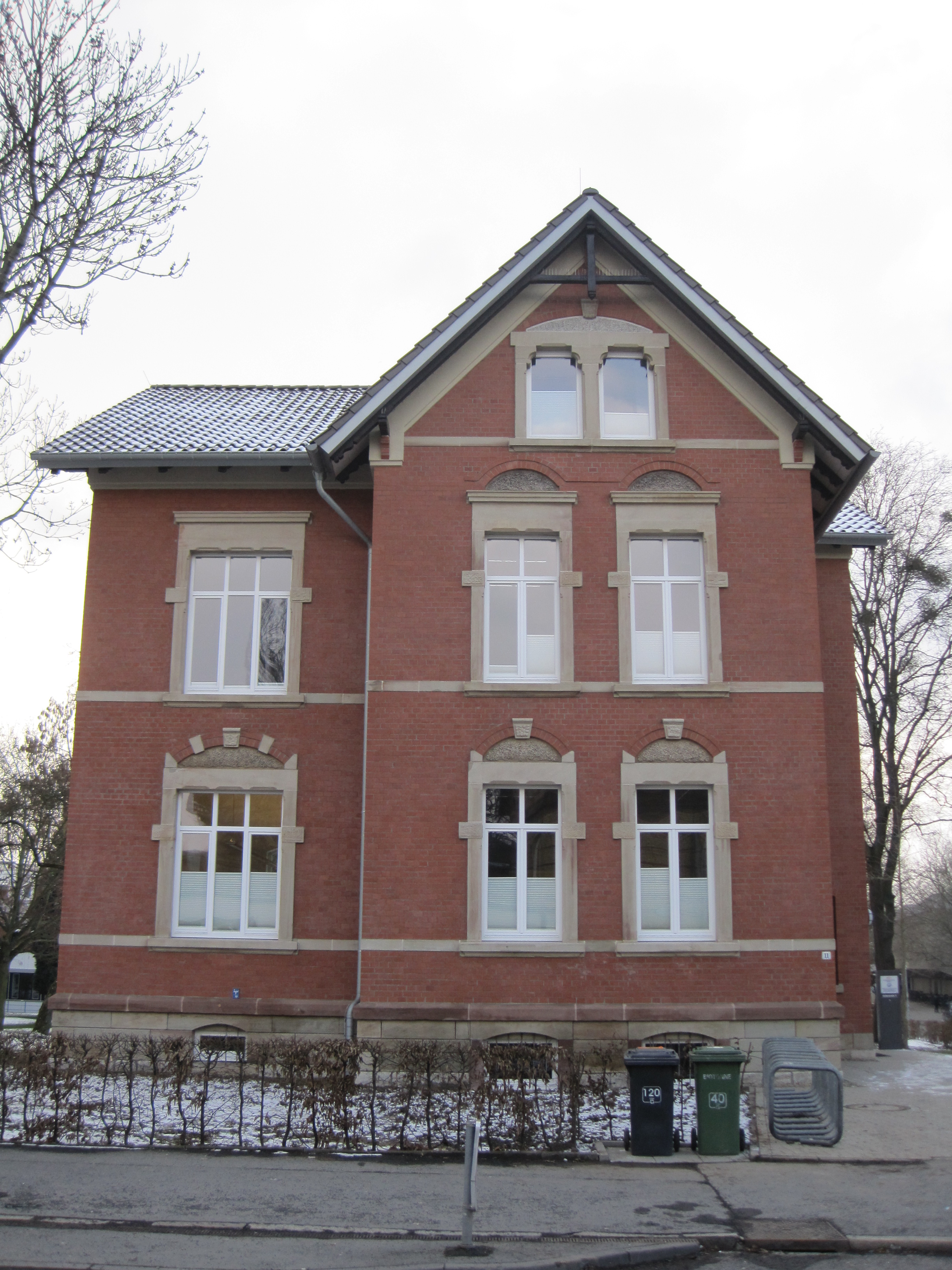 EKD Law Institute, Göttingen, Germany